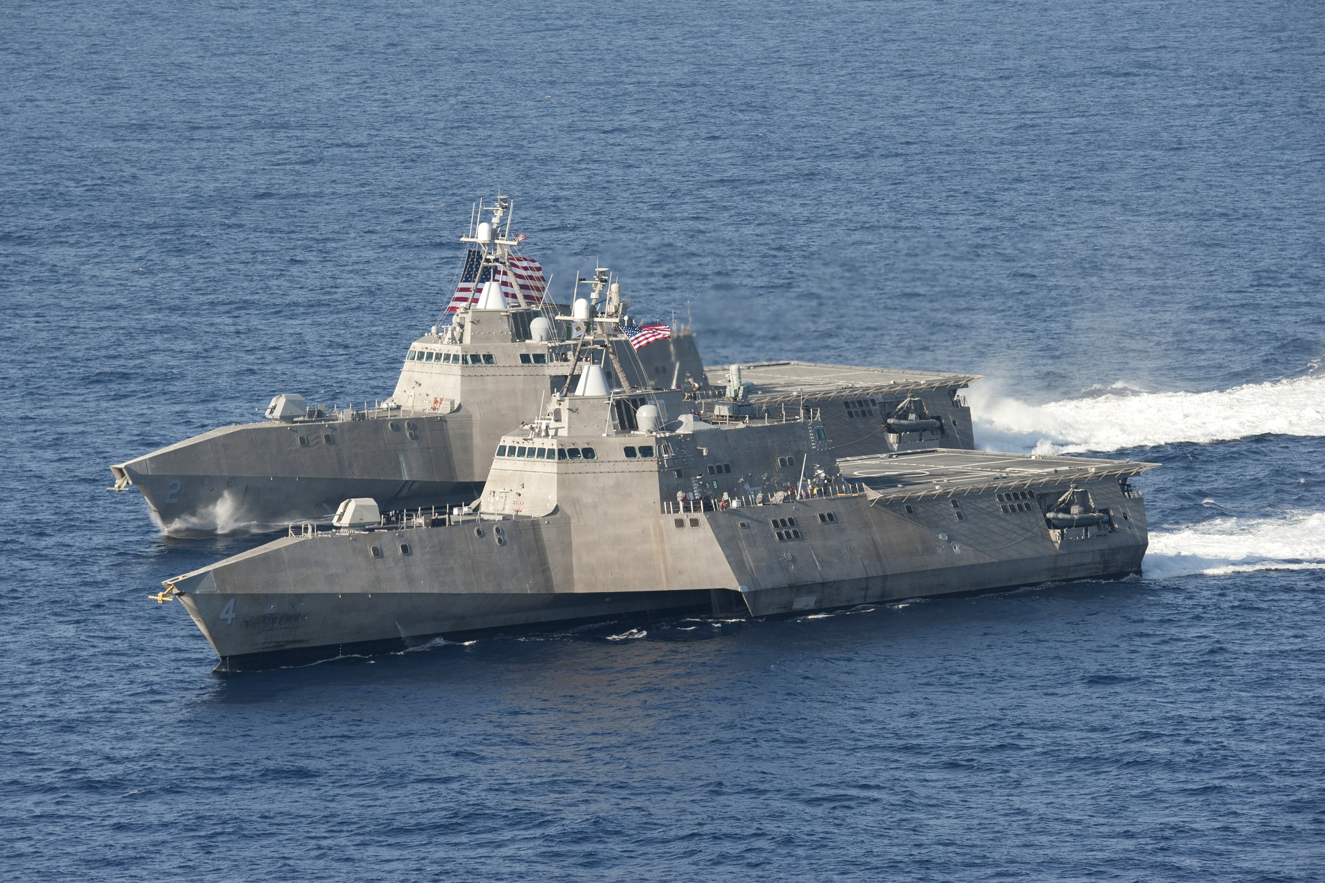 The U.S. Navy littoral combat ships USS Independence (LCS-2), back, and USS Coronado (LCS-4) underway in the Pacific Ocean.